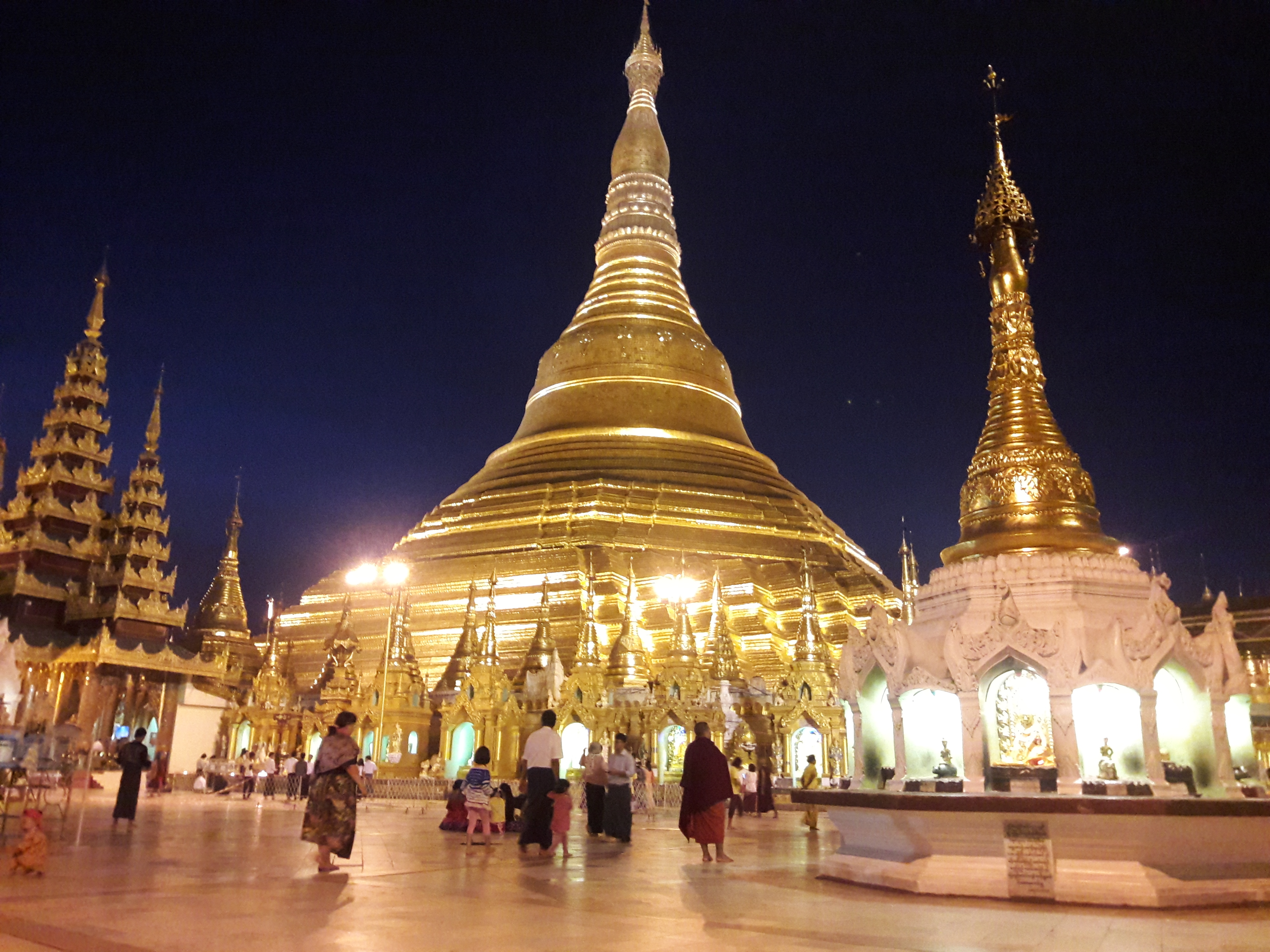 Shwedagon pagoda see morning at 4:30pm